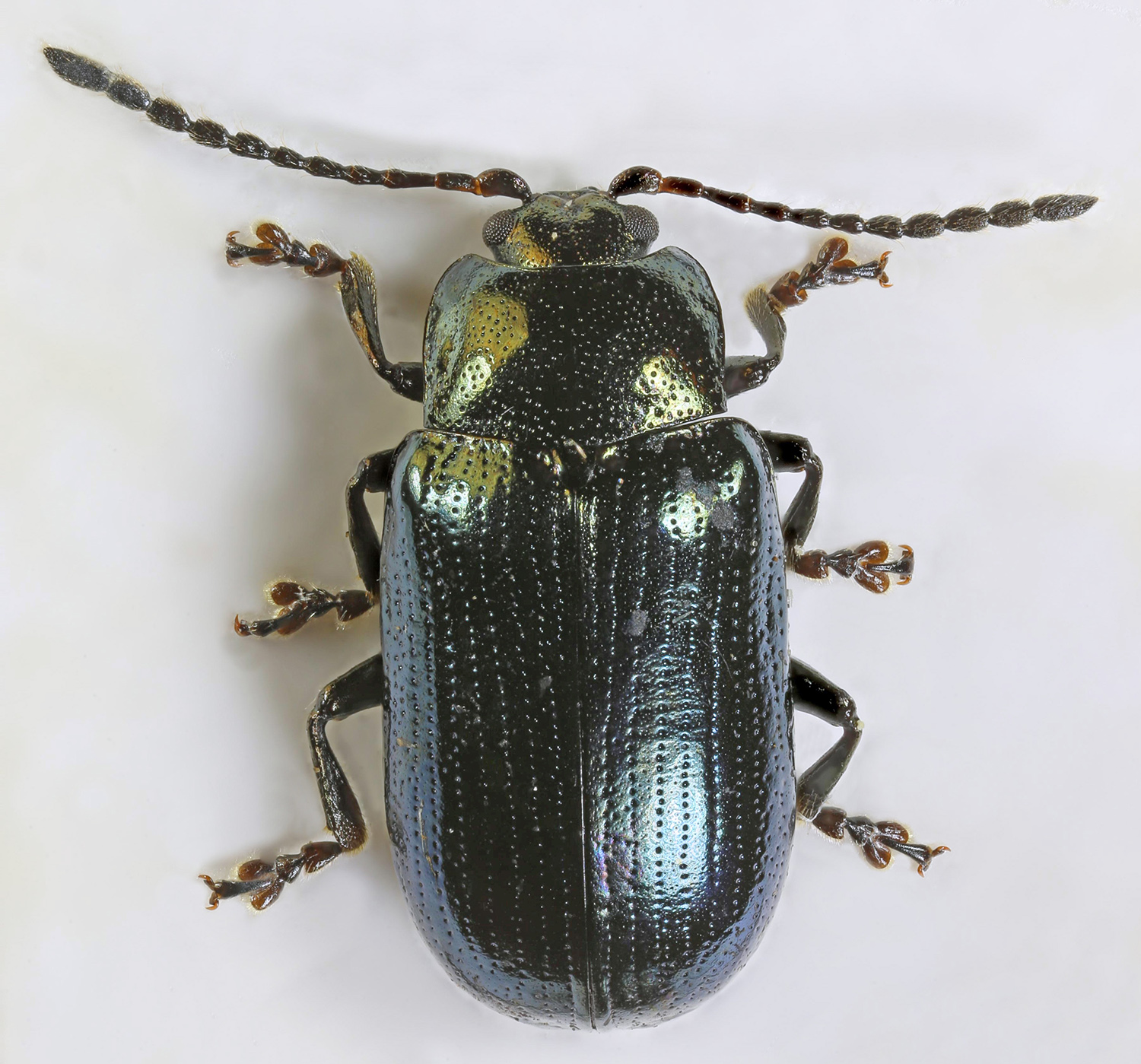 Phratora laticollis, Deeside, North Wales, July 2015